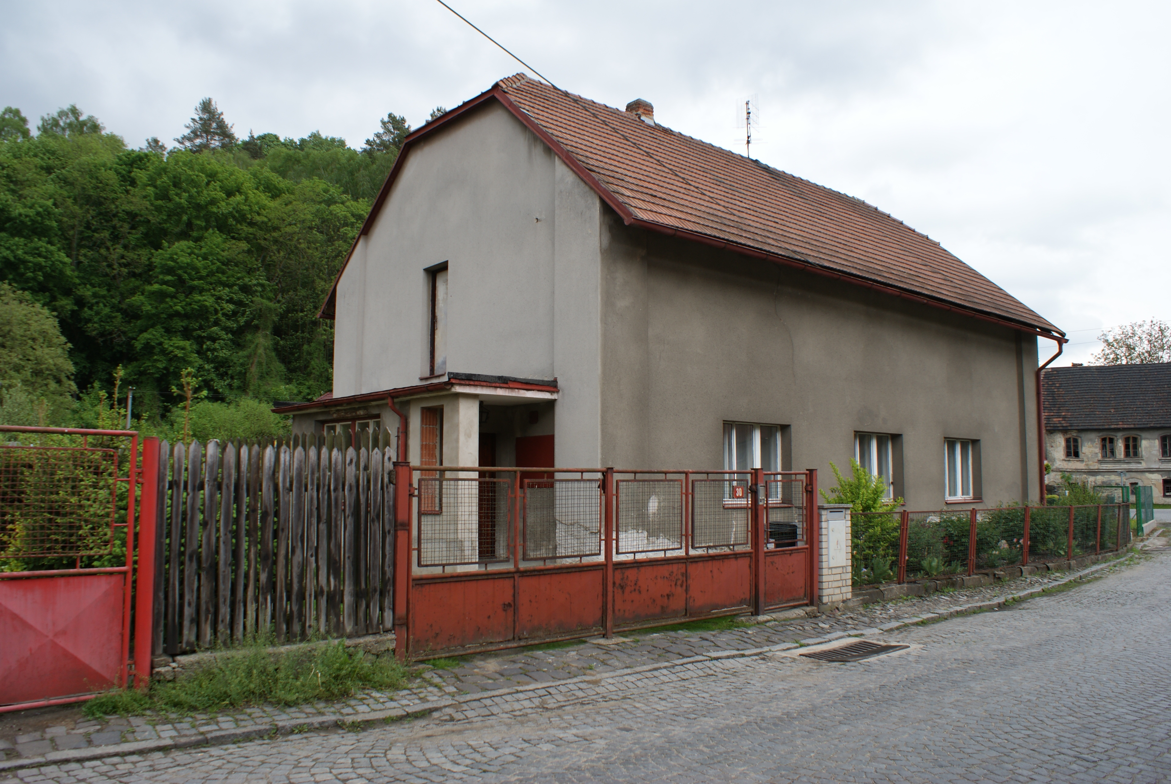 Former synagogue in Dolní Cetno, Mladá Boleslav district, Czech Republic.